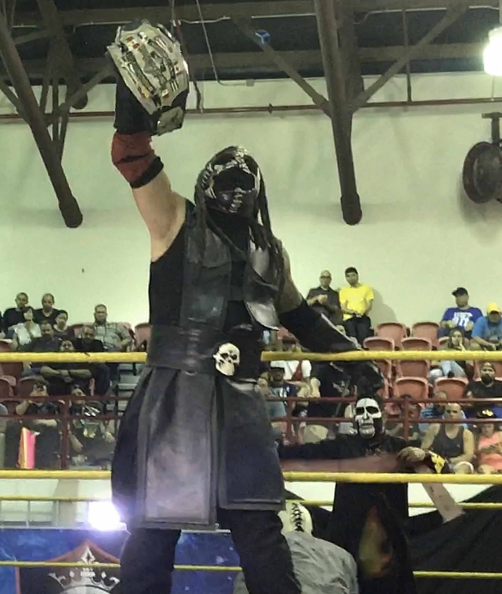 Professional wrestler Spectro (Edgar Díaz) as the WWL Americas Champion.